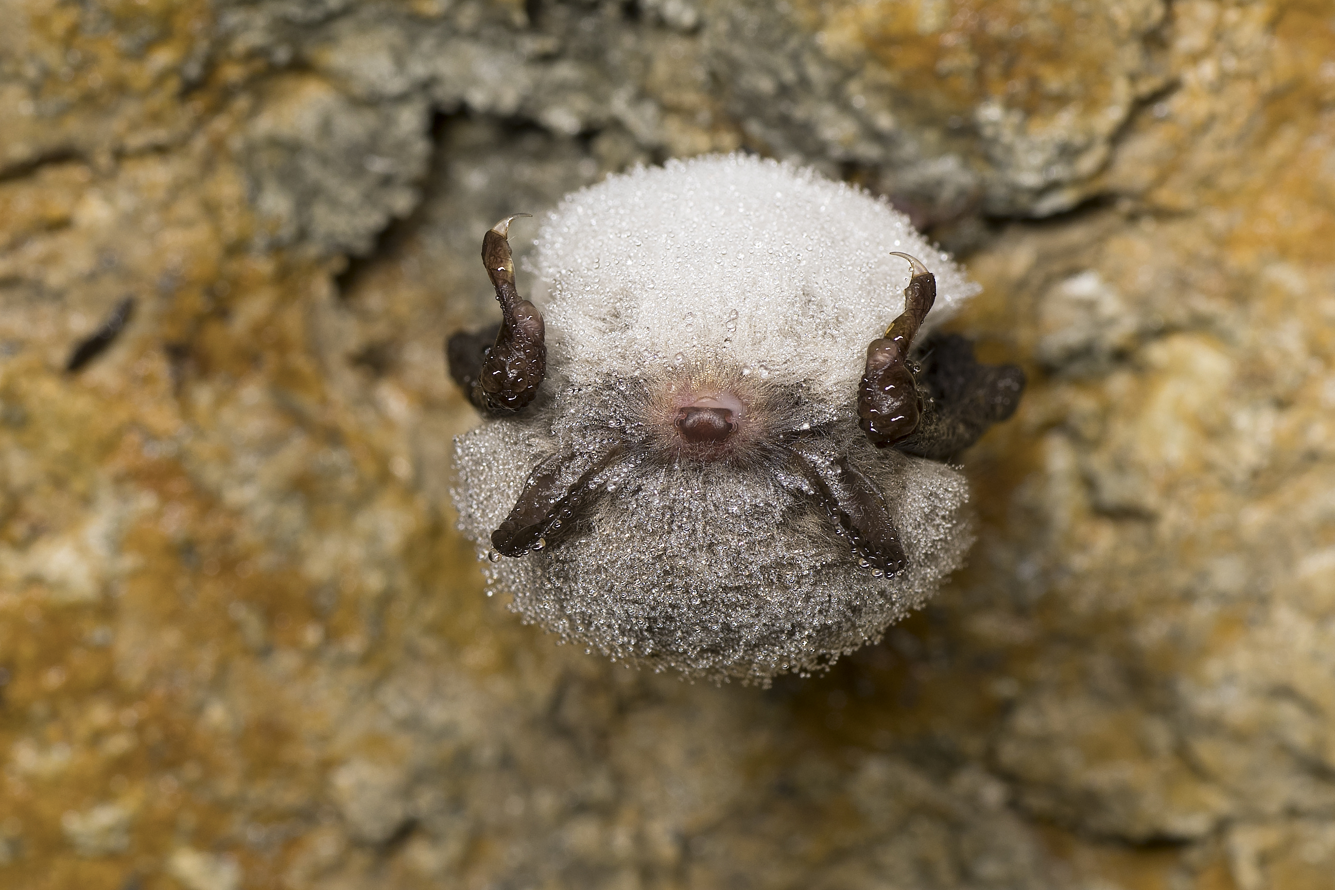 Myotis daubentonii hibernating. The moisture that has condensated on bats body helps it to prevent water loss. Photographed during national monitoring. Аҧсшәа: Veelendlane Myotis daubentonii talvitumas. Nahkhiire kehale kogunenud niiskus hoiab nahkhiirt veepuuduse eest. Photographed during national monitoring.